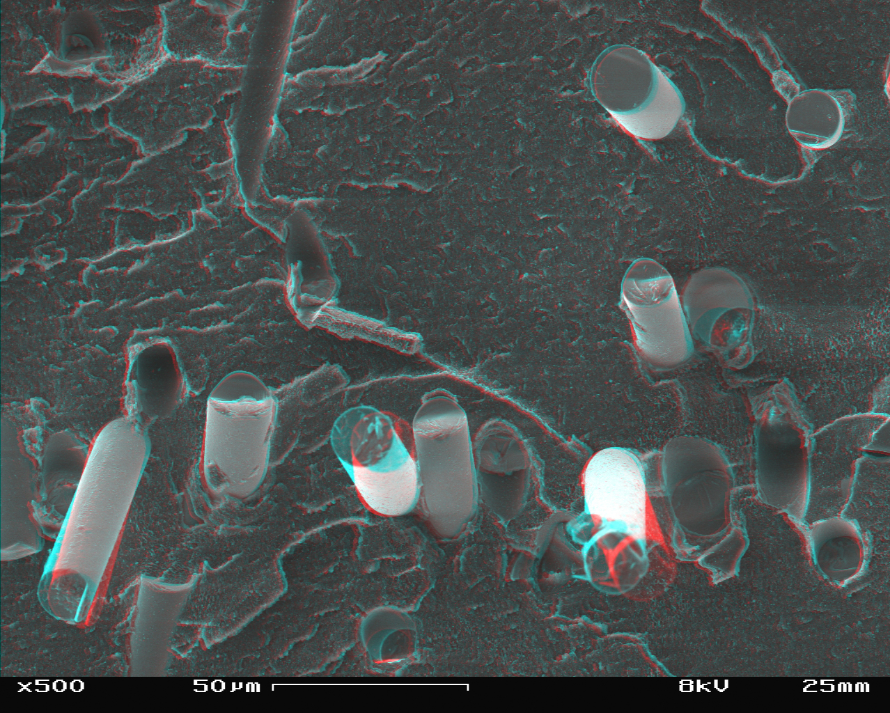 This is a stereoscopic SEM (scanning electron microscope) view of a fractured glass reinforced plastic after a 25 nm platinum sputter coating. Magnification 500x (relative to medium format film).